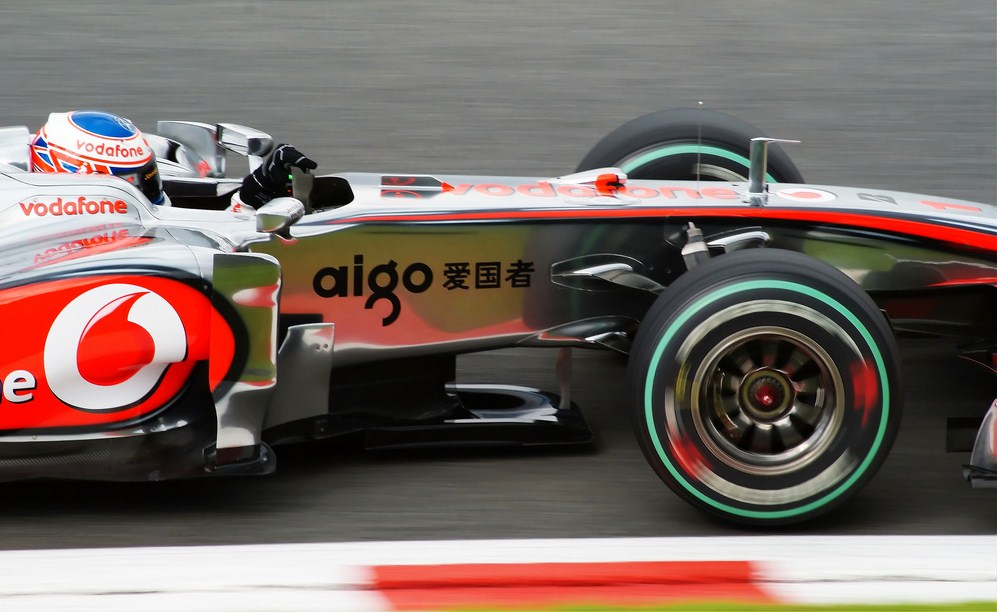 Jenson Button driving for McLaren at the 2010 Belgian Grand Prix.